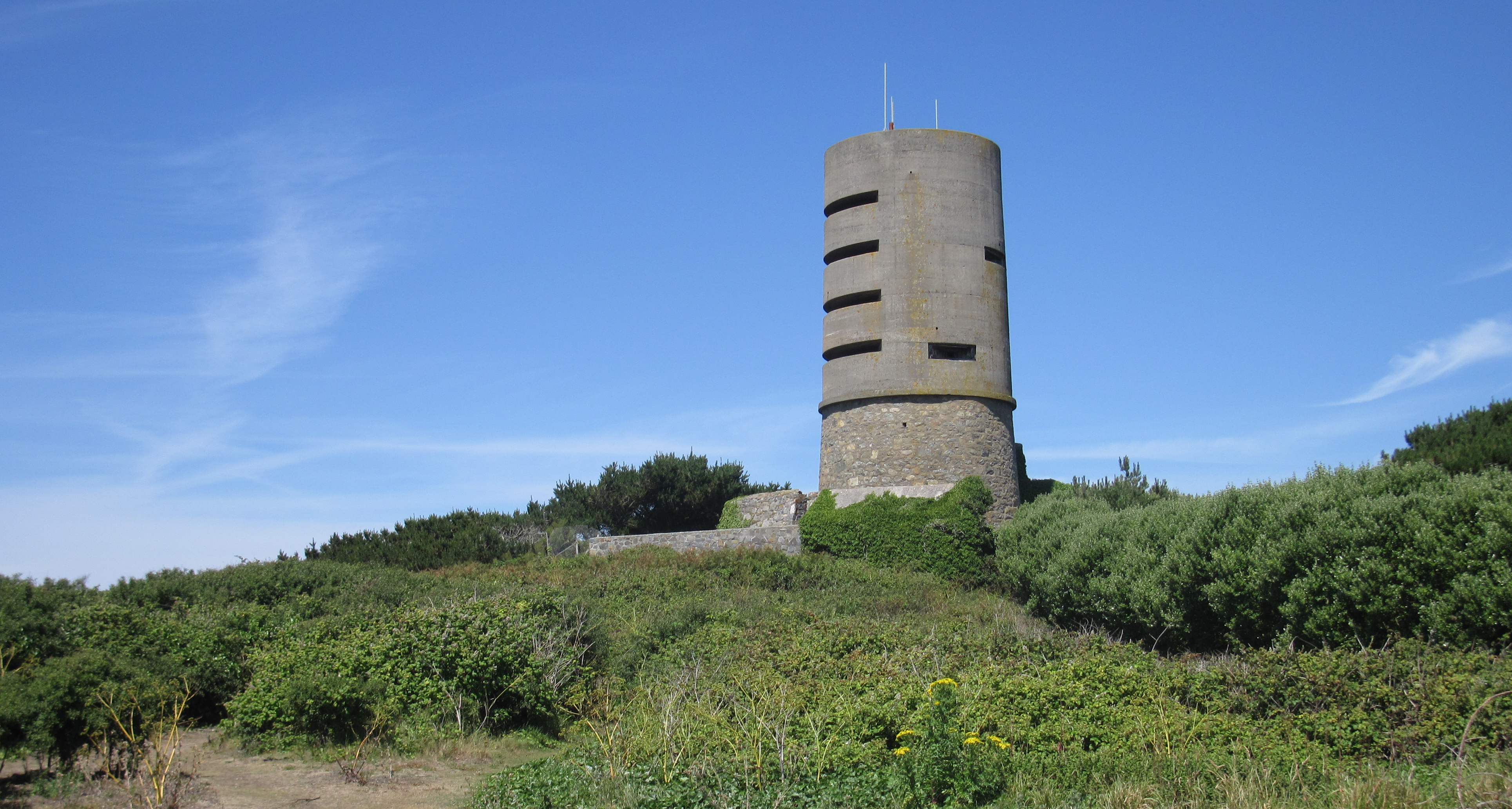 Guernsey, June-July 2011: Fort Saumarez, with German WW2 watchtower built upon it